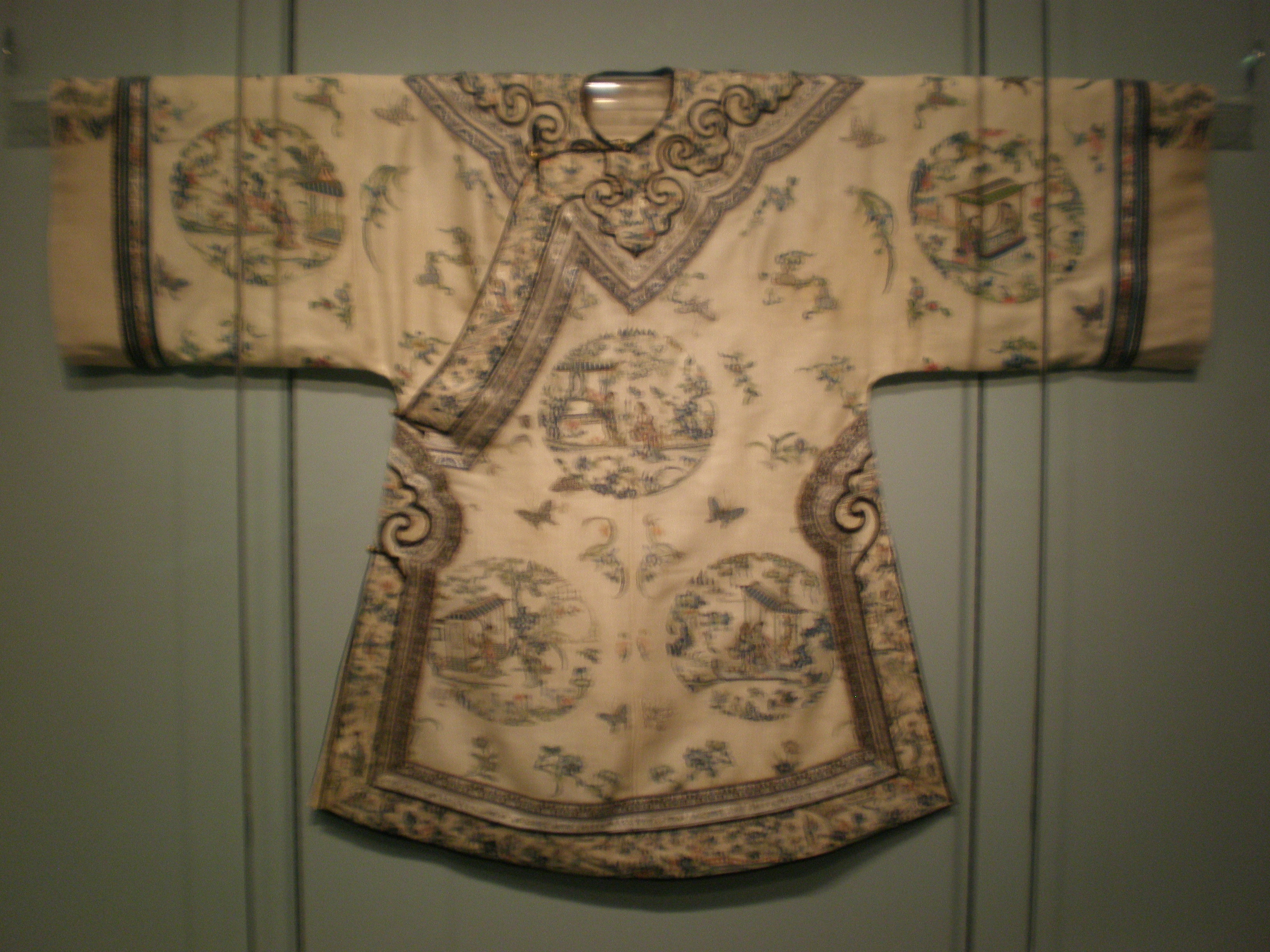 Woman's summer robe, silk gauze, approx. 1875-1900, Qing Dynasty. On display at the Asian Art Musem of San Francisco. 2004.36